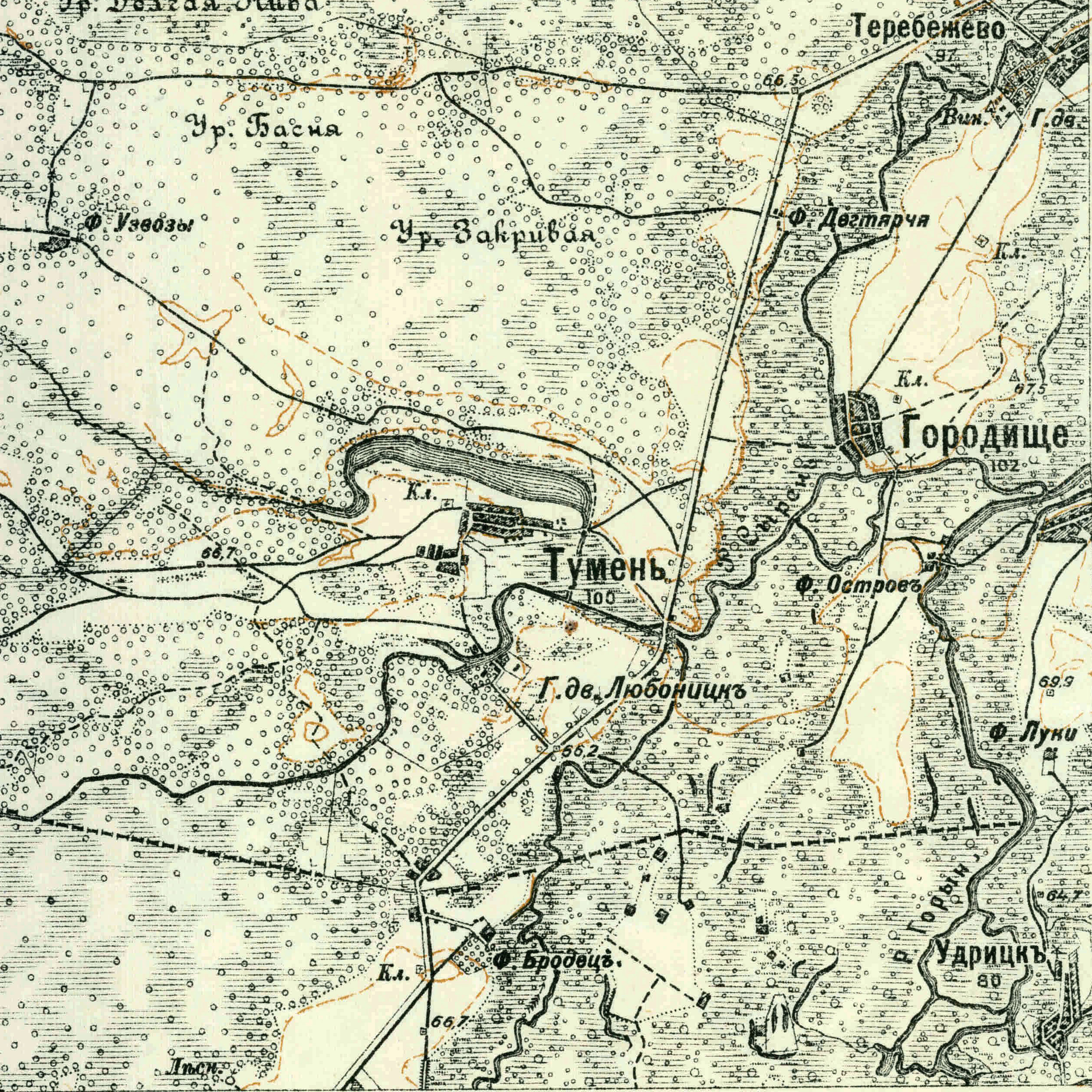 Horodyshche on the map "Новая Топографическая Карта Западной России", XXIV 21, 1916.